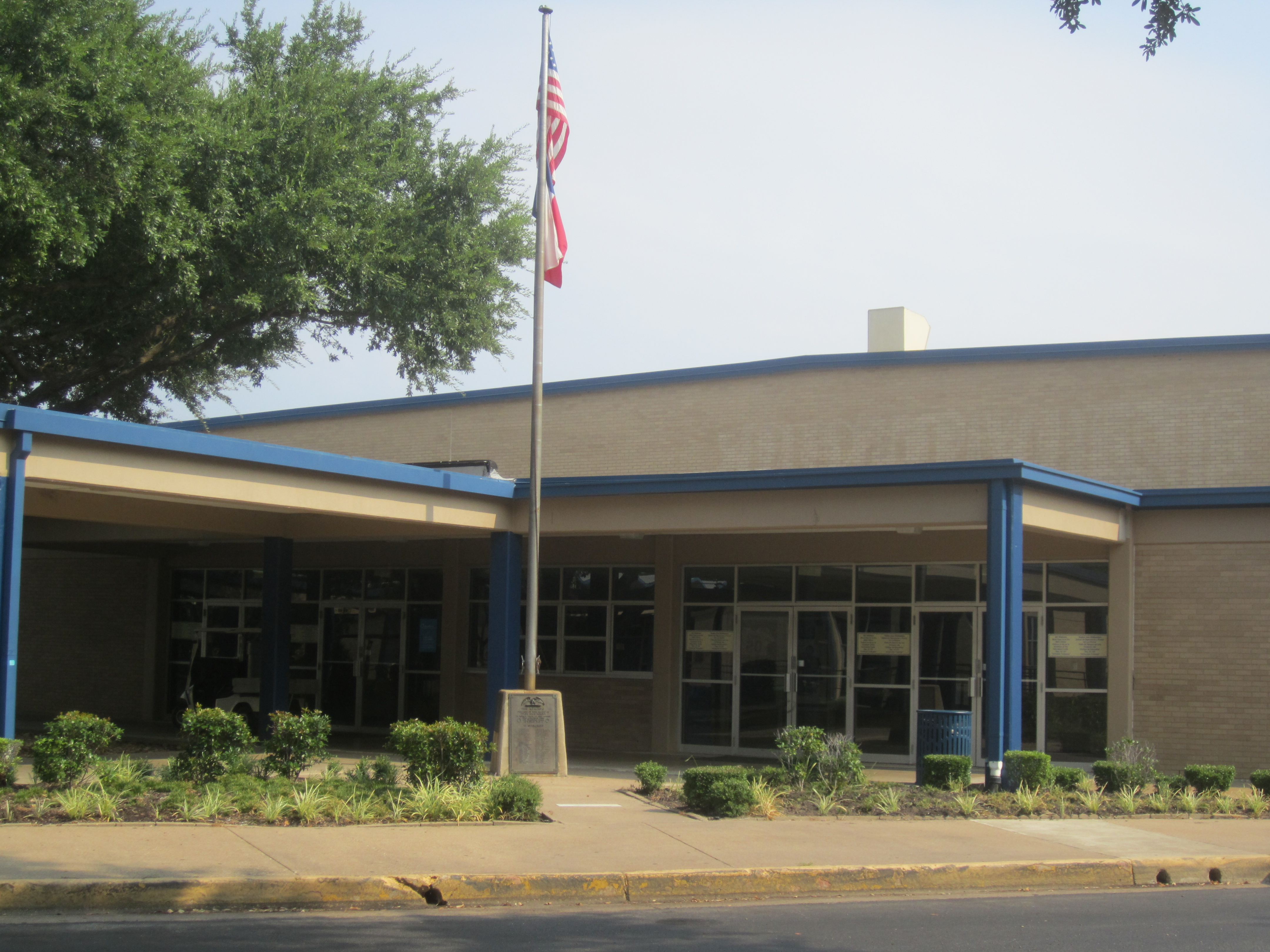 I took photo with Canon camera in Tyler, TX.